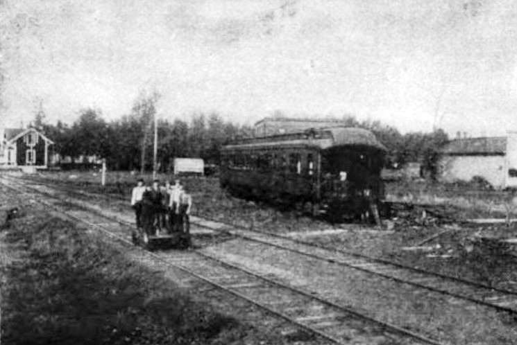 Photo of the American Baptist Publication Society's railroad chapel car Glad Tidingson a side spur.